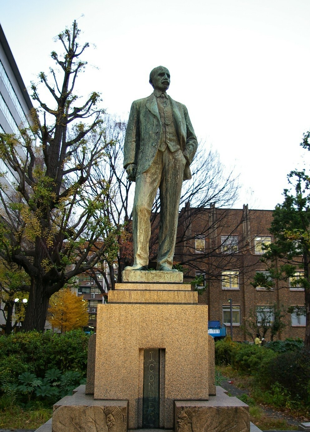 Josiah Conder. Statue made in1922 by Taketaro Shinkai.